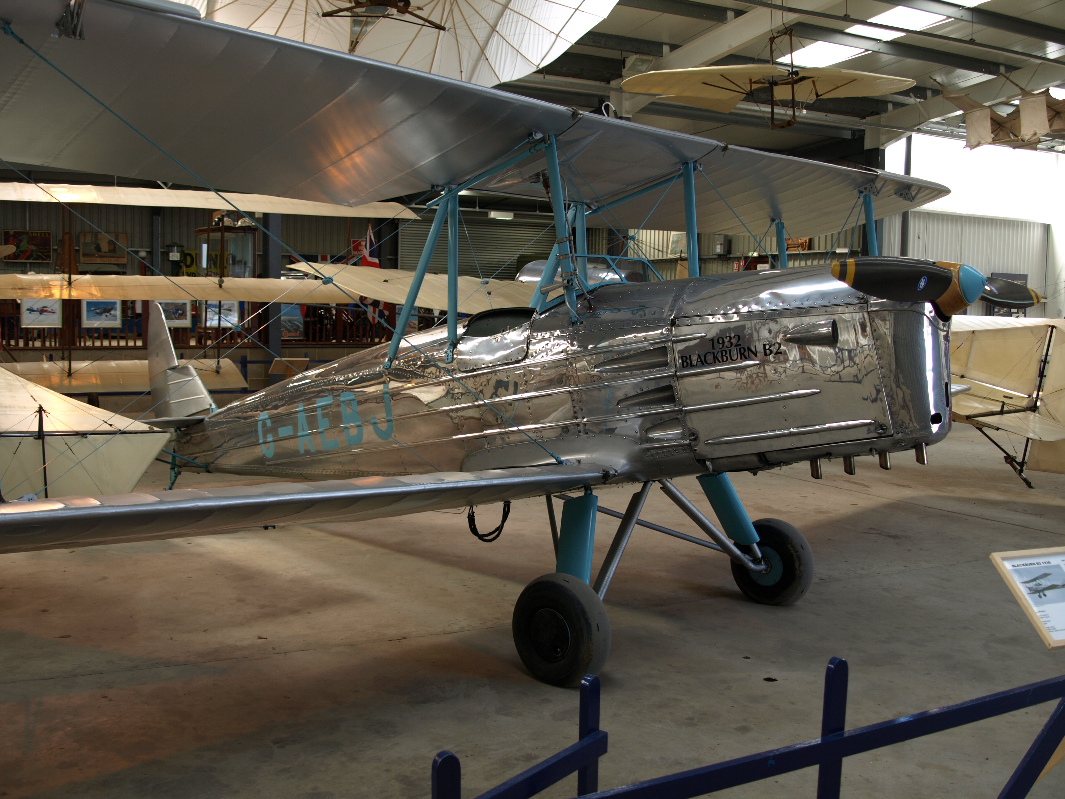 Blackburn B2 light aircraft